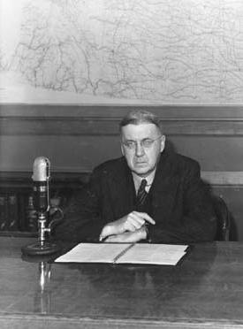 John Brownlee in January 1944.